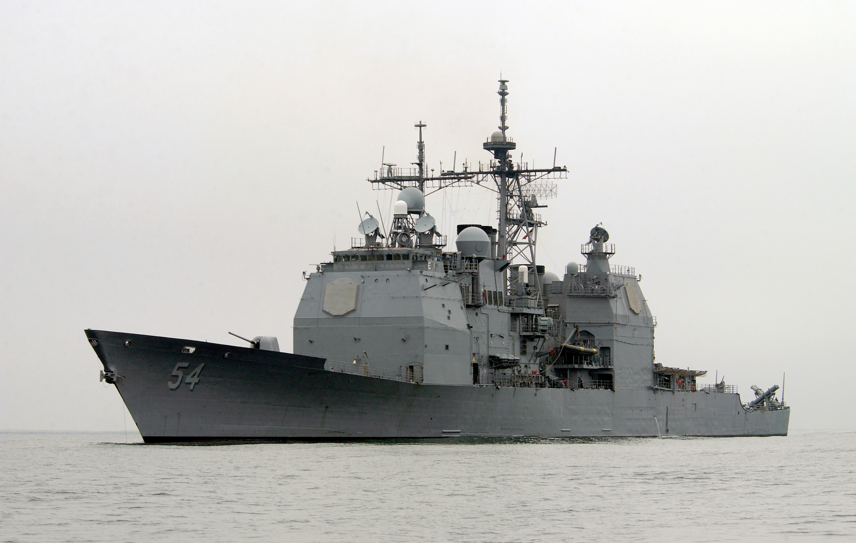 The US Navy (USN) Ticonderoga Class Guided Missile Cruiser USS ANTIETAM (CG 54) is underway after leaving her homeport of San Diego, California (CA).